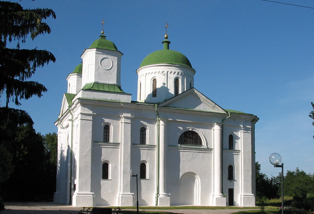 The Heorhiivskyi (Uspenskyi) Cathedral, Kaniv, Ukraine